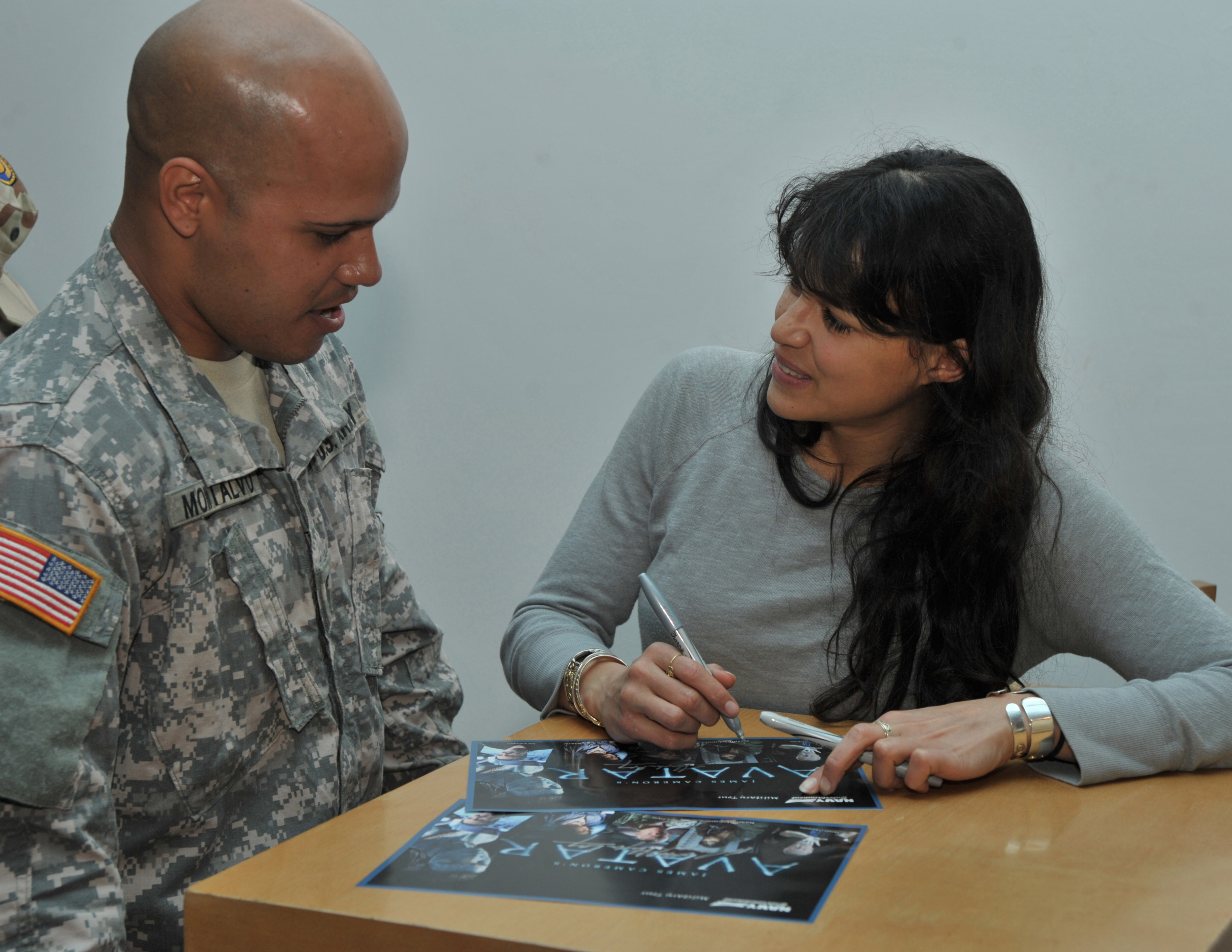 U.S. Army Spc. Emilio Montavo, 1st Battalion, 65th Infantry Regiment, Charlie Company, talks with actress Michelle Rodriguez during an autograph signing with the cast of Avatar here, Jan. 31. Sigourney Weaver, Stephen Lang and producer Jon Landau also signed autographs. The tour was arranged by Navy Entertainment, which included visits to service members at sea, Bahrain and Djibouti.